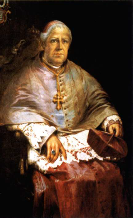 D. Frei Francisco de São Luís Saraiva (1766-1845), Cardinal of the Roman Catholic Church, and Patriarch of Lisbon.